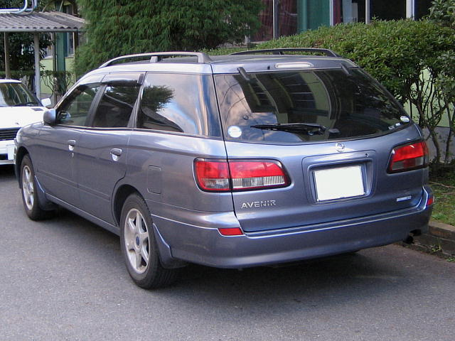 Nissan "Avenir" (W11 / 2nd generation)